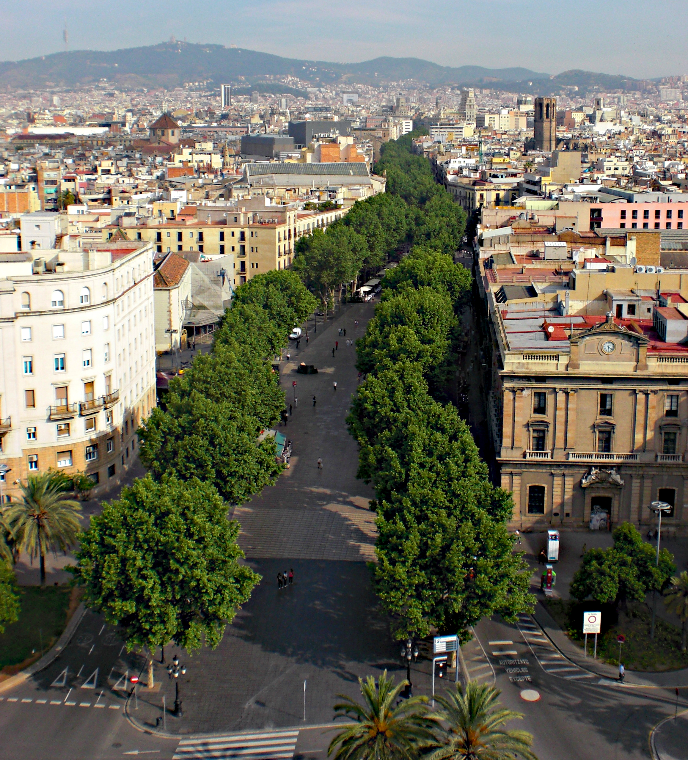 La Rambla in Barcelona, viewed from the Columbus statue (10 June 2009).